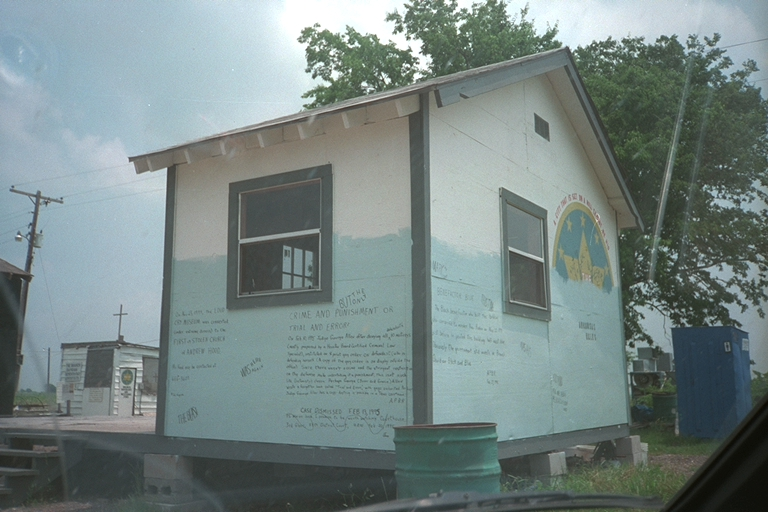 Mount Carmel (Branch Davidian compound site), near Waco, TX, 1995. Building.